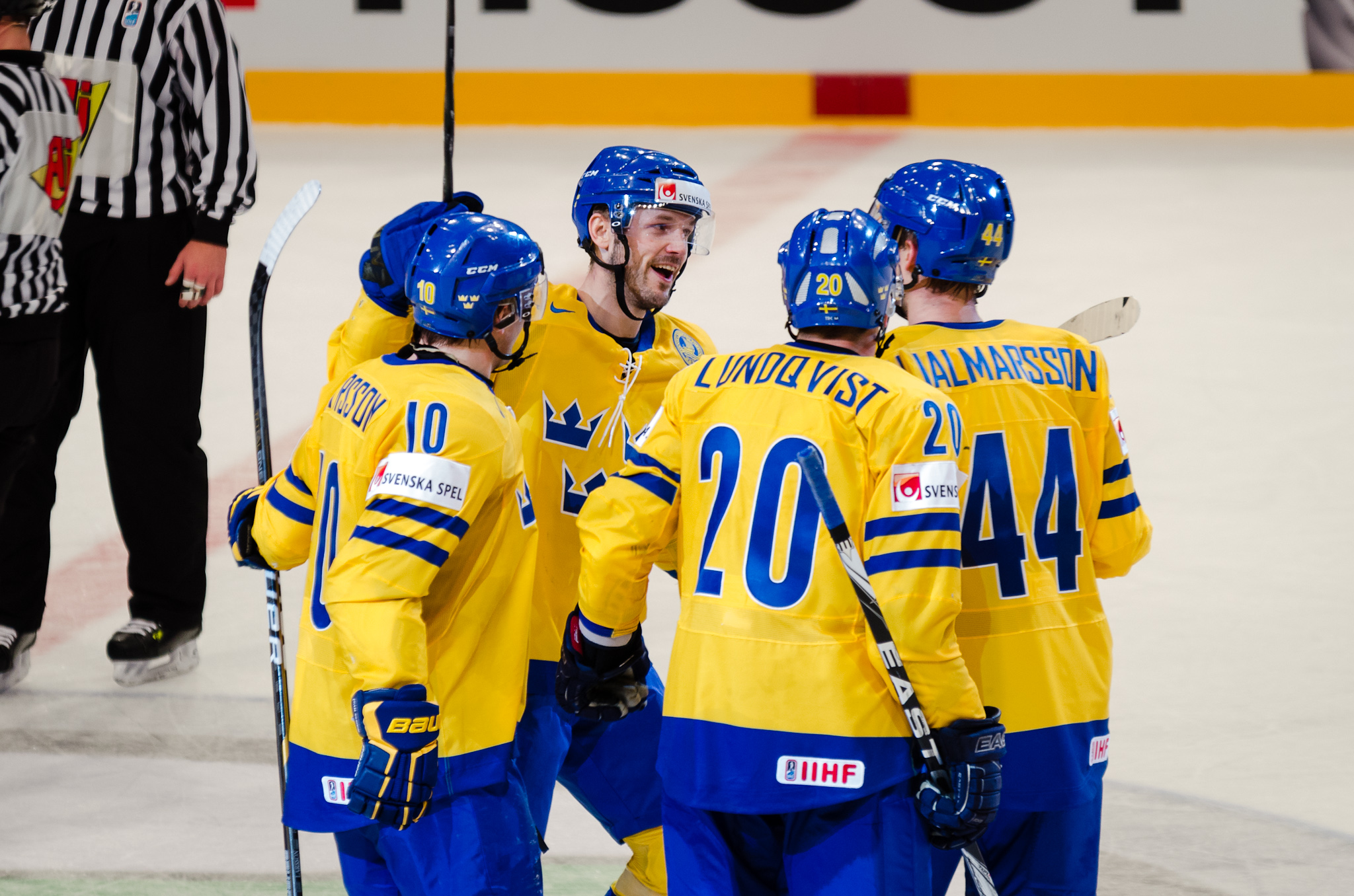 Sweden men's national ice hockey team players, 2012 IIHF World Championship.